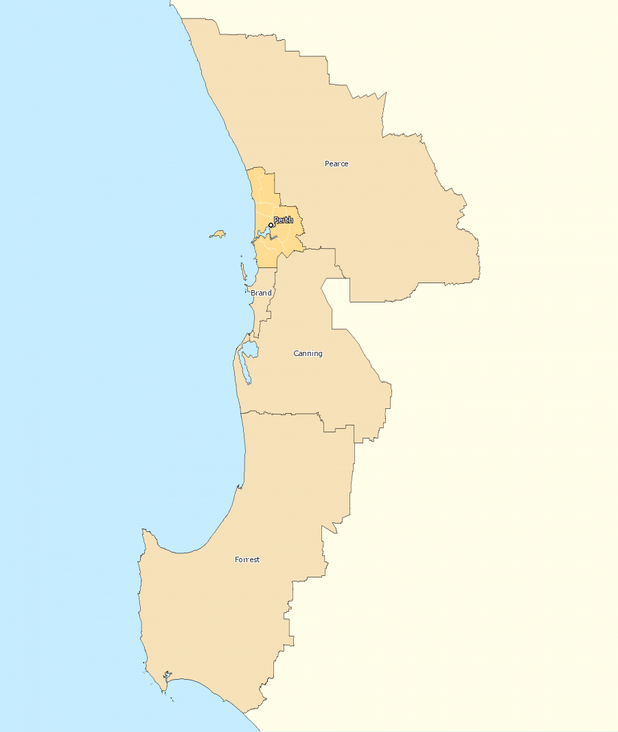 This image incorporates data that is: © Commonwealth of Australia (Australian Electoral Commission) 2009 Outside Perth divisions overview 2010